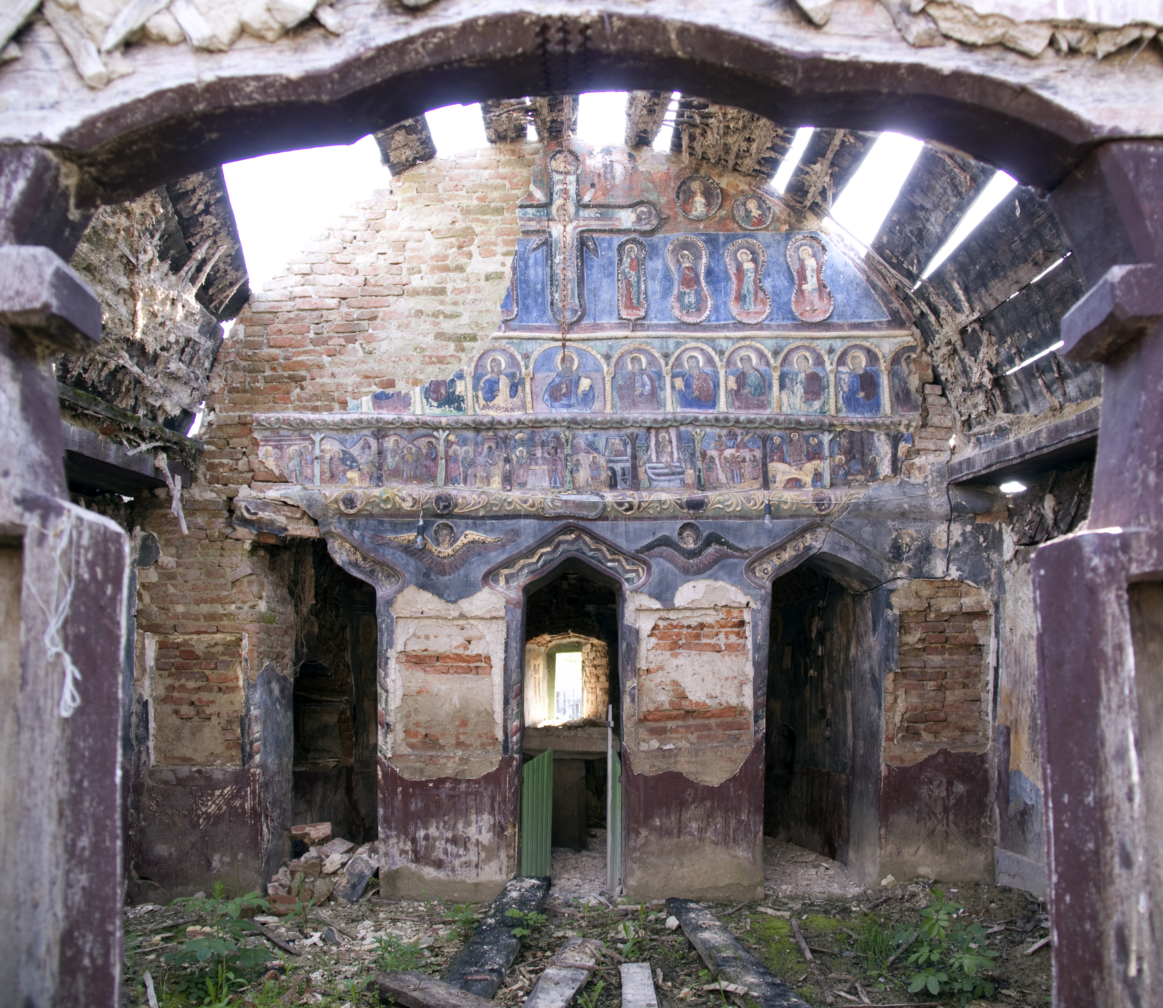 Sineşti, Vâlcea county, România: wooden church, the icon screen.